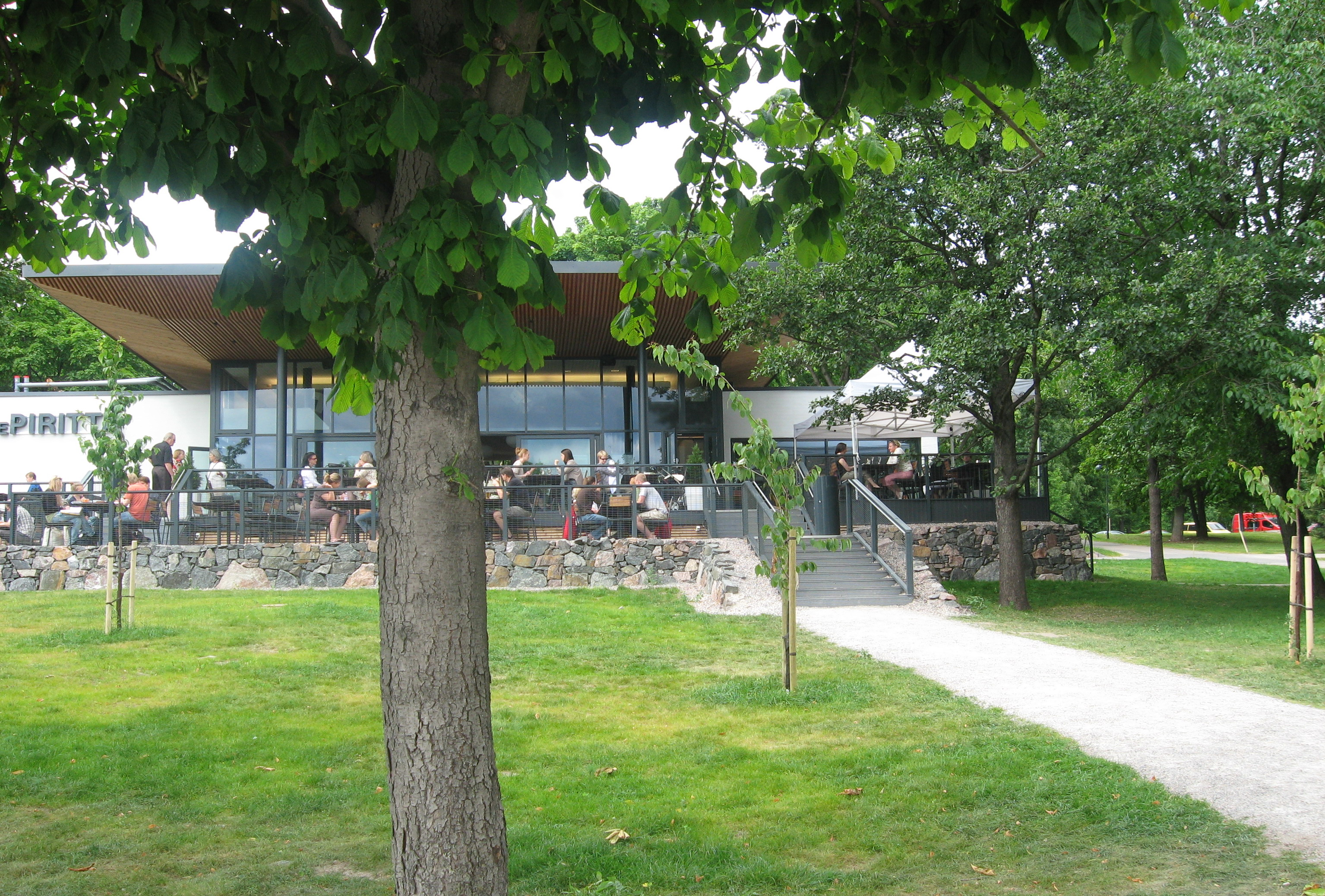 Cafe Piritta, Tokoinranta, Helsinki, Finland. Originally built 1977, architects Irmeli and Markus Visanti. Almost completely rebuilt (after fire) in 2009-10, architect Veli-Markku Kukkanen from Arkkitehtitoimisto CJN.